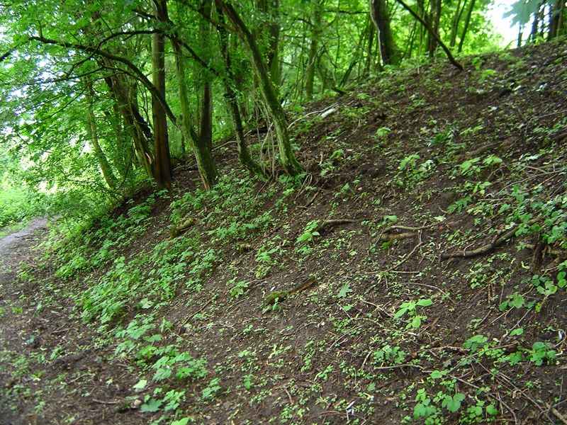 The photo shows part of the Slavic fortification of Castle Demmin, just outside the current ruins of "Haus Demmin". The footpath is flooded for the better parts of the year. If one walked it outside of the photo to the top, he'd be at the "Husar-Schulz-Weg" which to the left would lead back to Vorwerk, and would lead to the ruins of "Haus Demmin" if walked to the right.